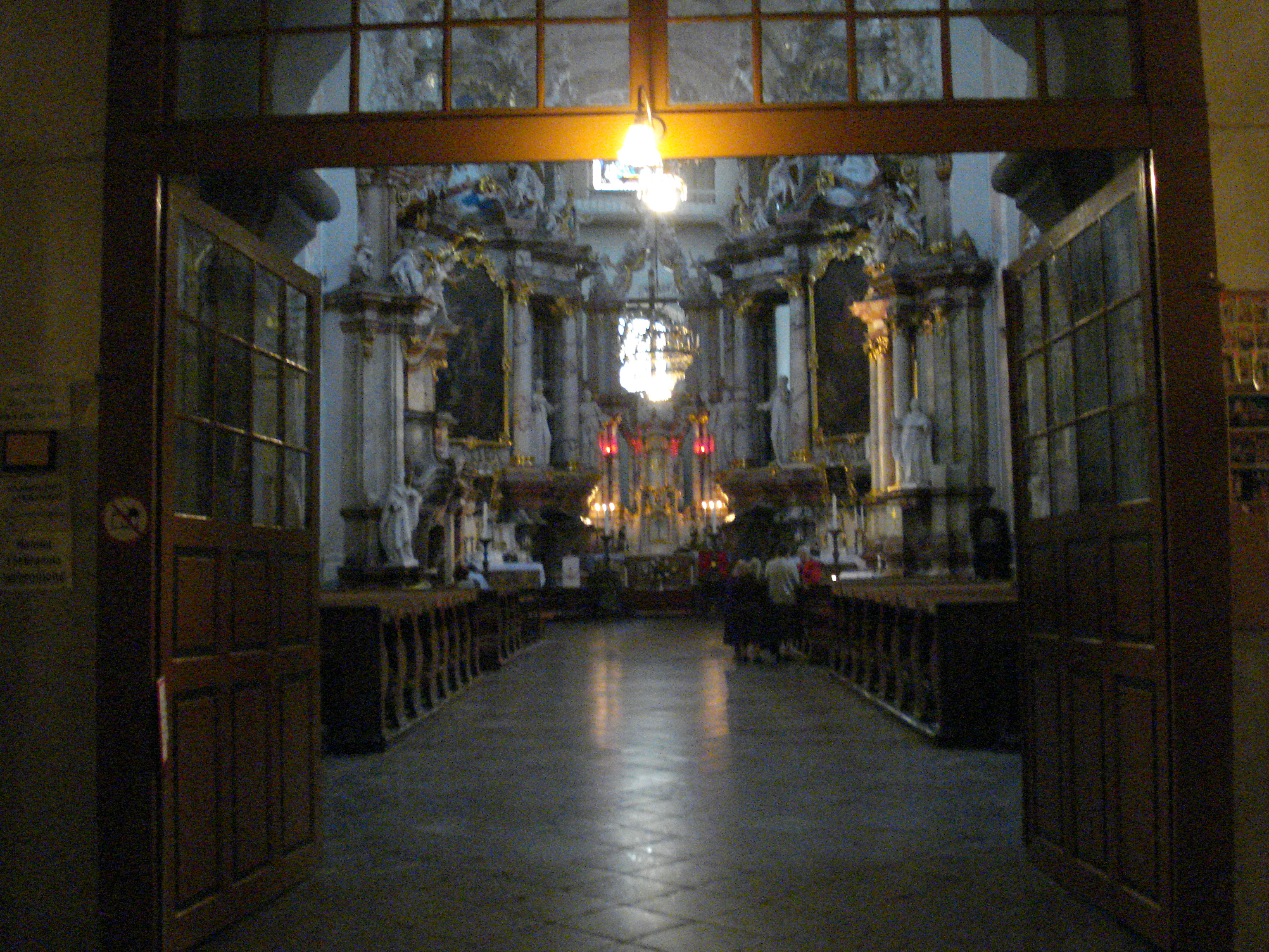 The Dominican Church of the Holy Spirit in Vilnius. Inside